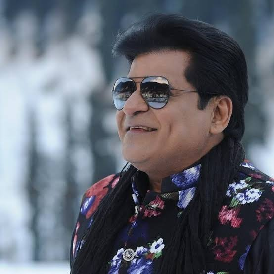 Indian Telugu actor Ali as a guest for a special event conducted by ETV Telugu India in January 2018